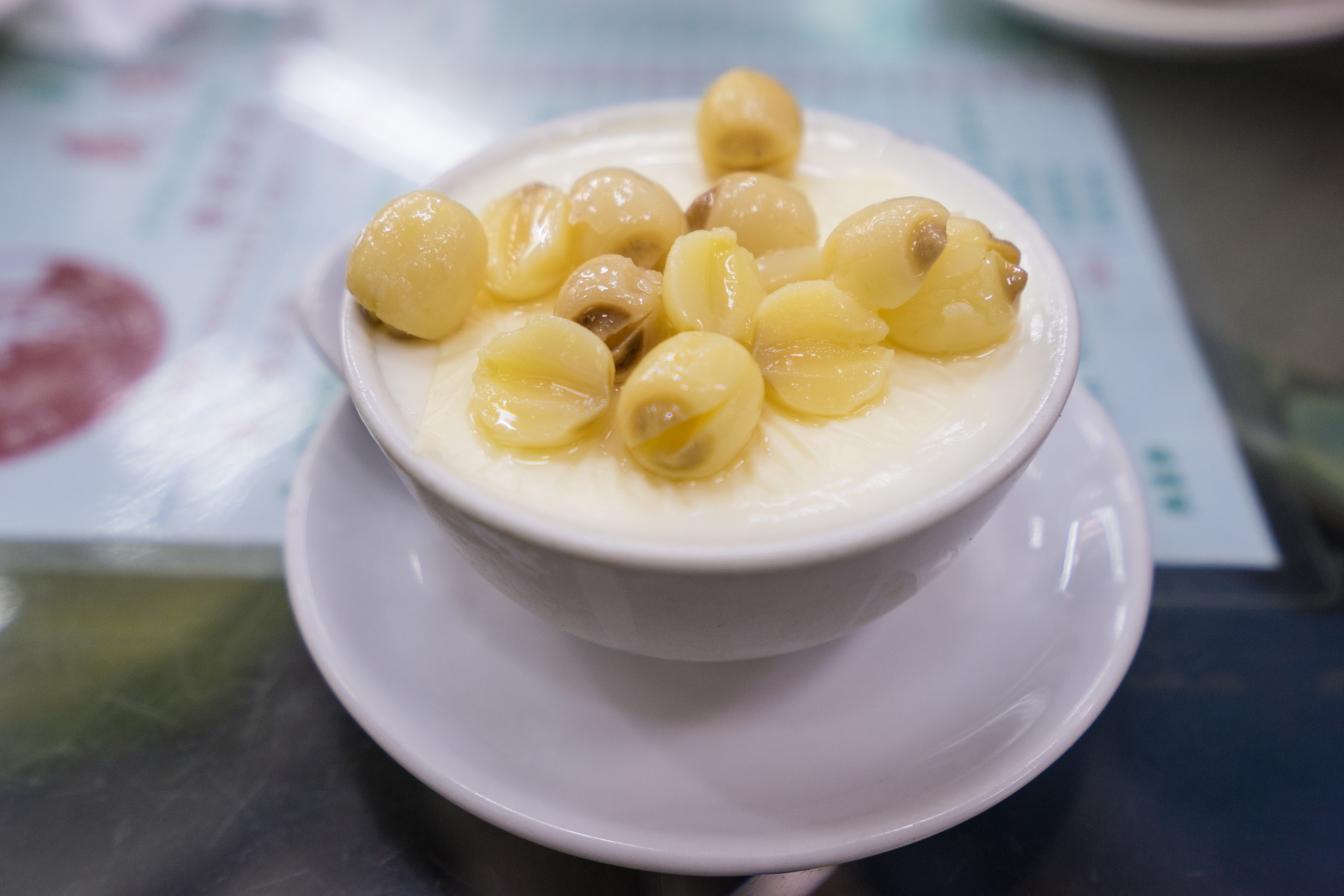 Yee Shun Milk Company